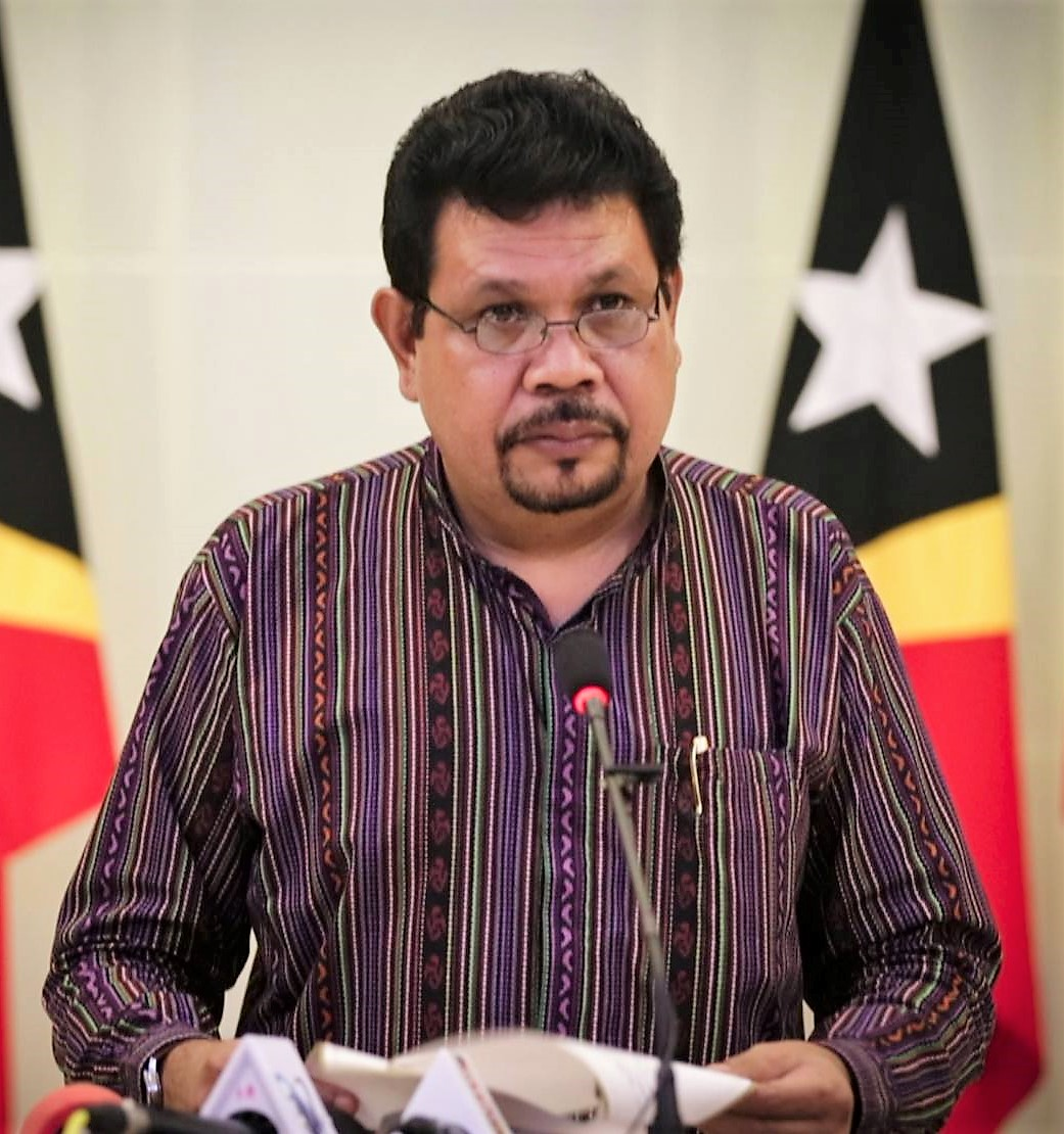 Francisco Maria de Vasconcelos, civil chief of staff of president Francisco Guterres